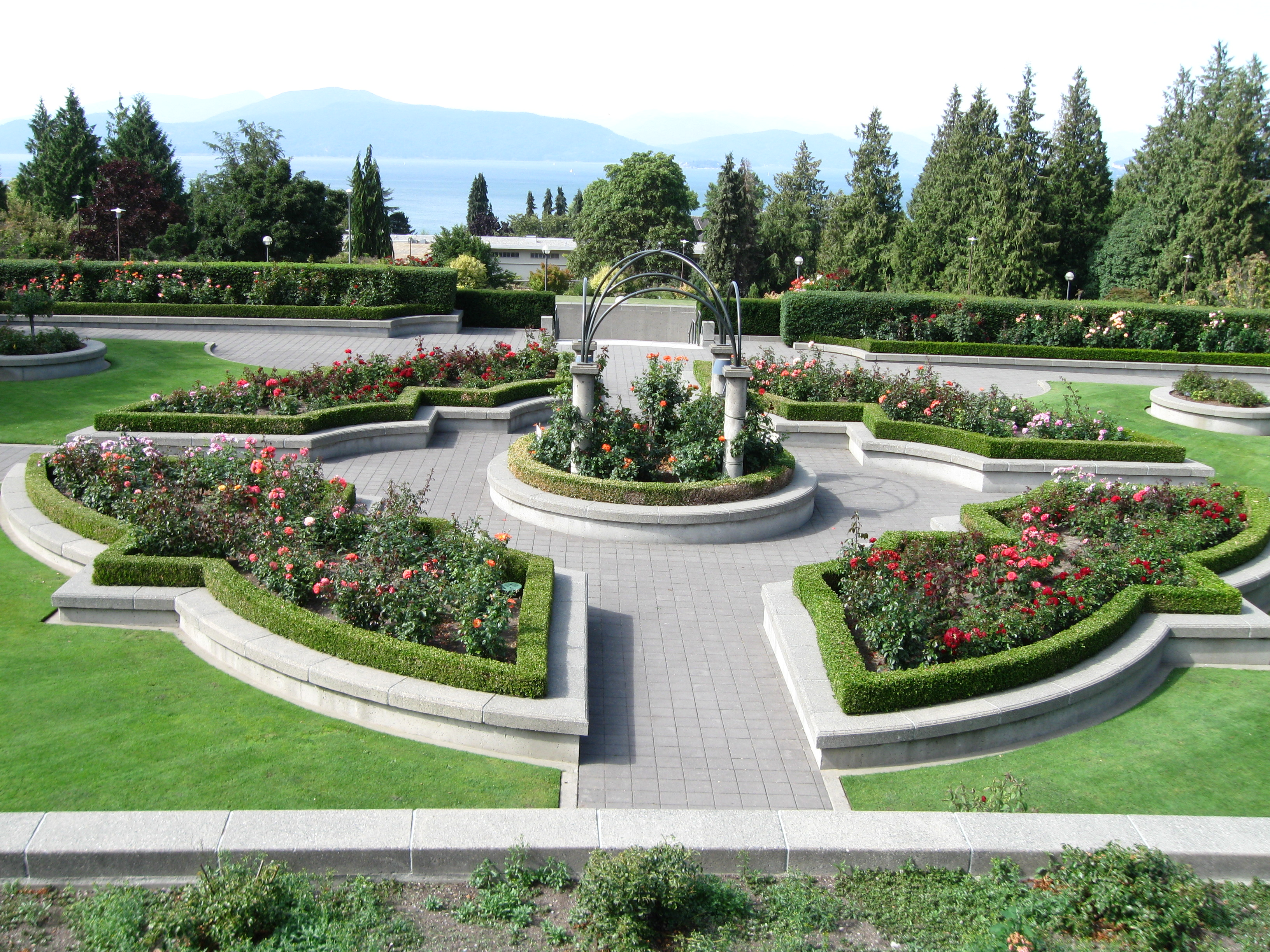 The elaborate and nicely designed official rose garden on UBC campus in Vancouver, Canada. The Strait of Georgia can be seen in the background.